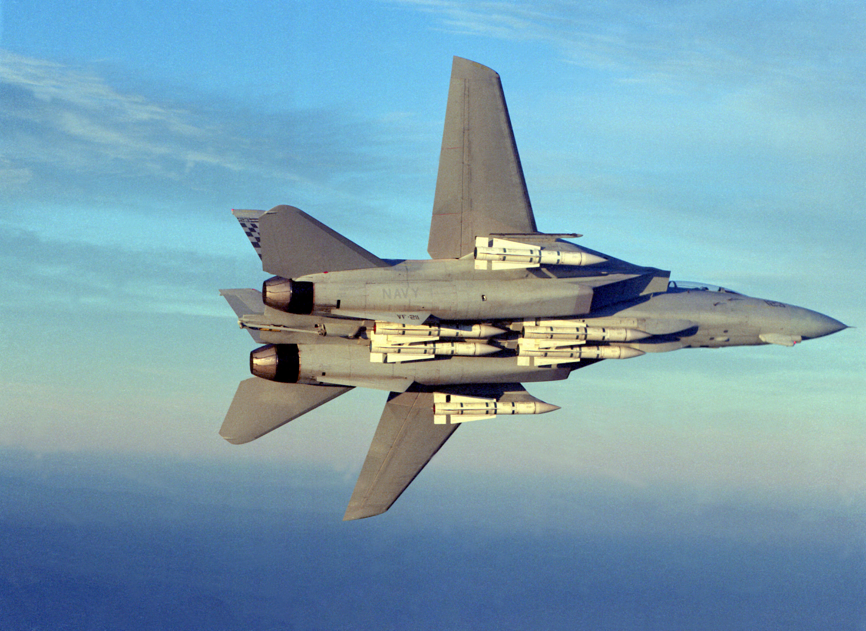 A Fighter Squadron 211 (VF-211) F-14B Tomcat aircraft banks into a turn during a flight out of Naval Air Station, Miramar, Calif. The aircraft is carrying six AIM-54 Phoenix missiles.